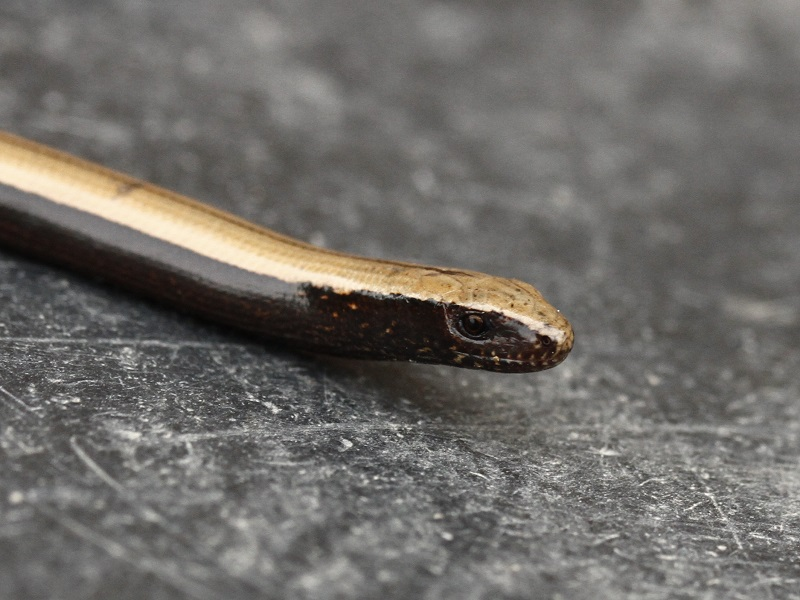 Anguis fragilis (Anguidae) (Slow Worm), Colmeal, Portugal